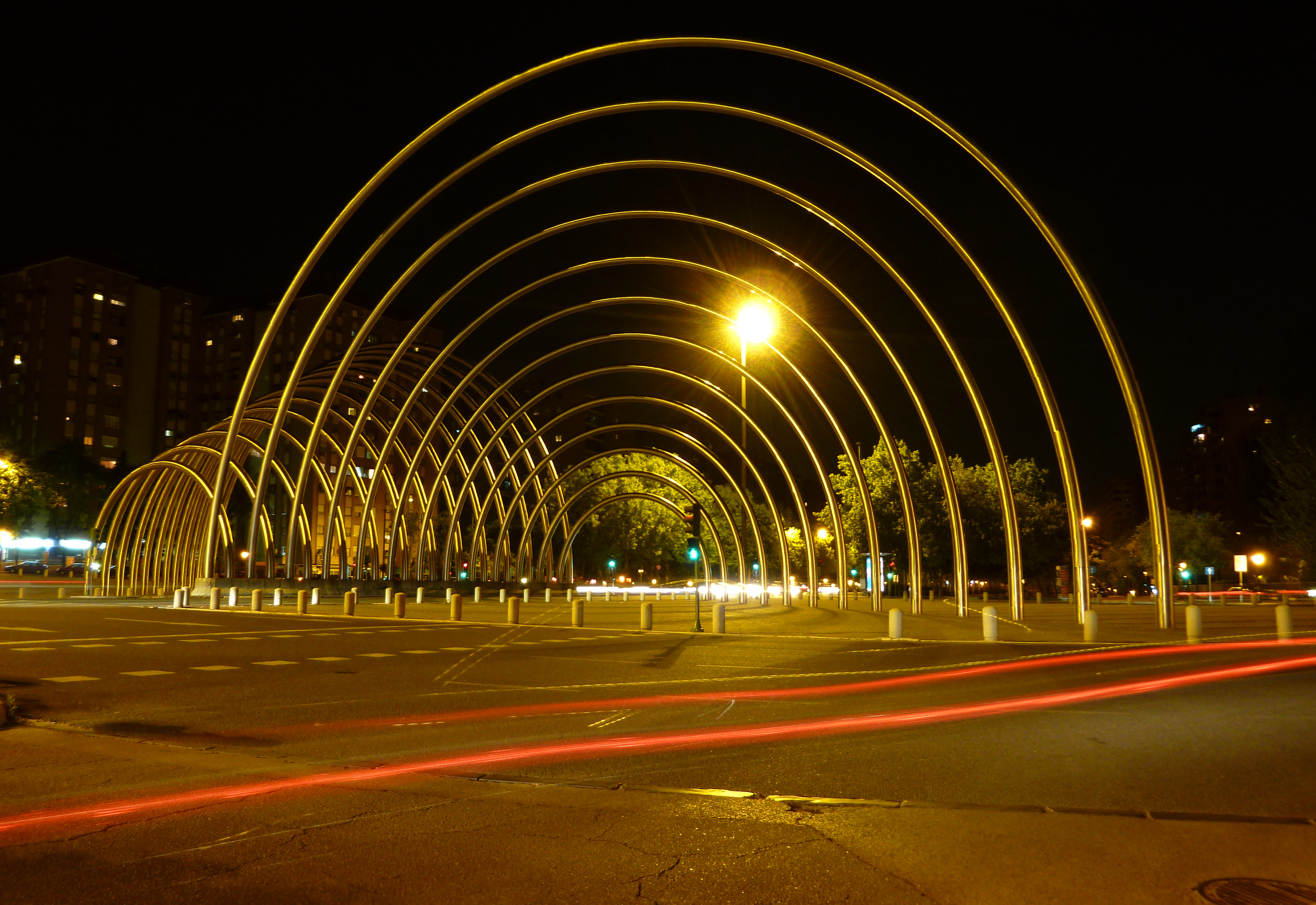 Night view of Puerta de la Ilustración ("Gate of Enlightenment") in Madrid (Spain).